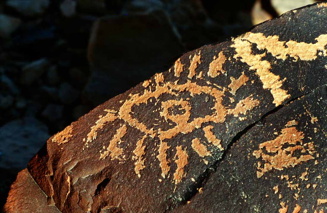 Israel, ancient engraving in rock; the "Eye of God".